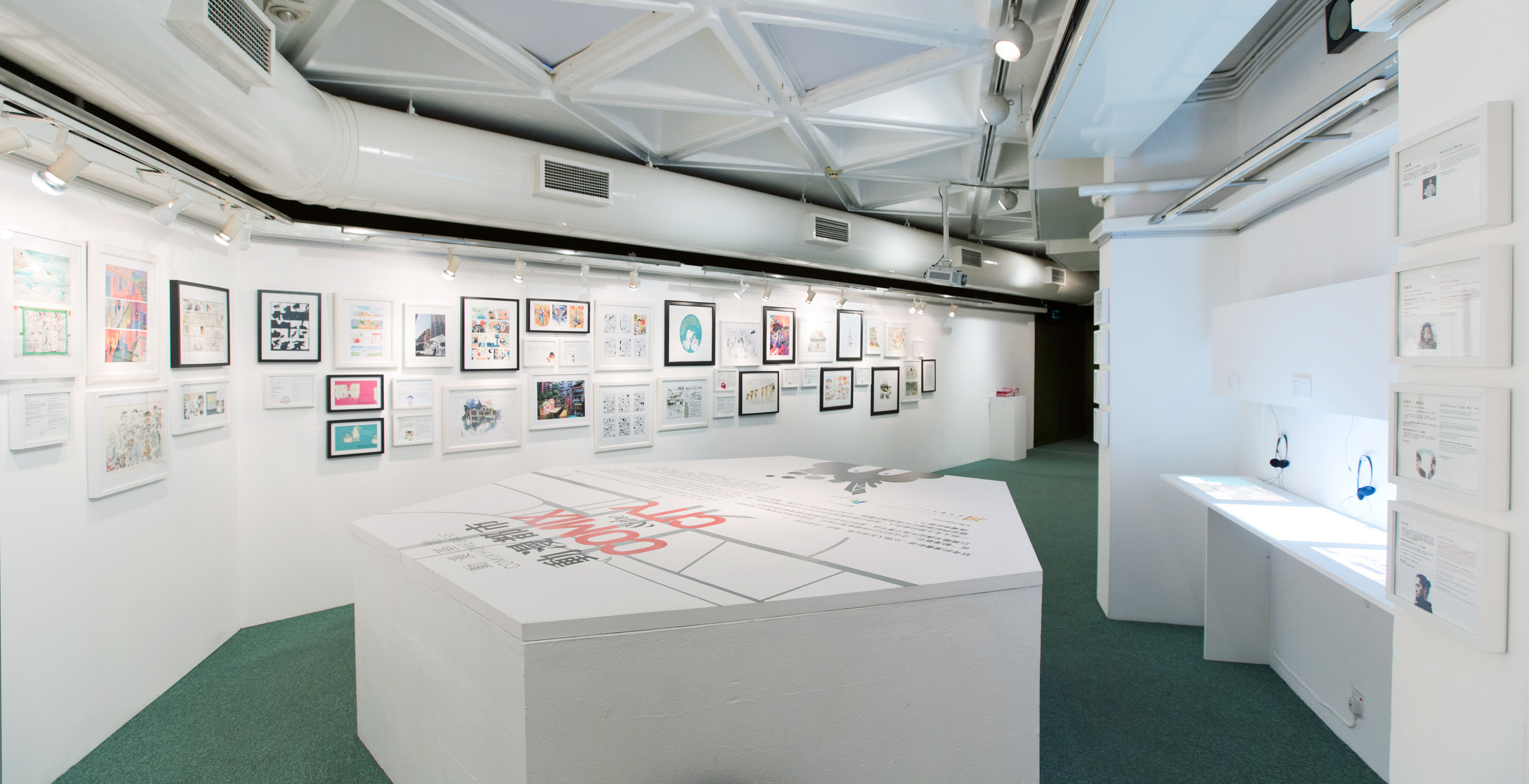 HKAC